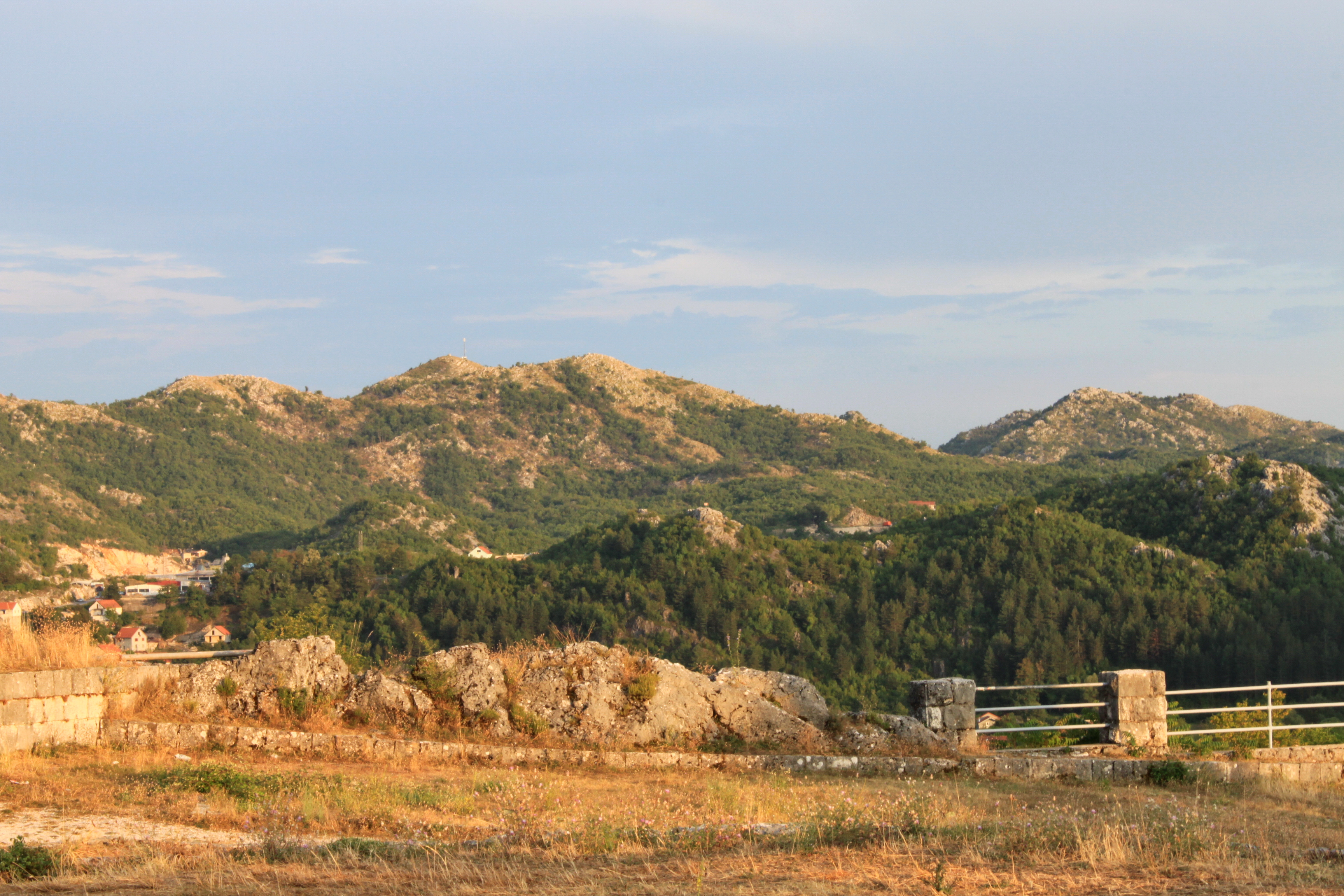 View from the hill "Eagle Rock" (Orlov krš). Cetinje, Montenegro.